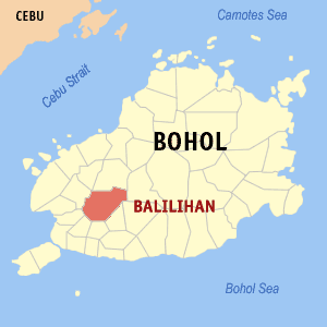 Map of Bohol showing the location of Balilihan